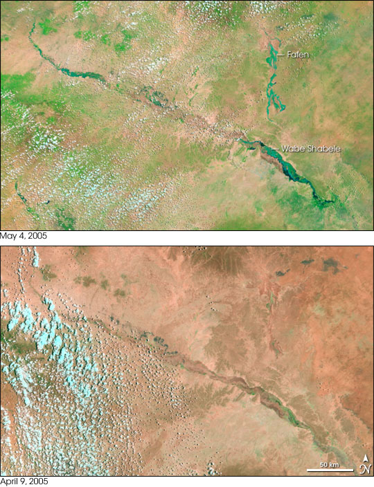 Two satellite pictures showing the Shabeelle (Shebeli) and Fafen Rivers in Ethiopia and Southern Somalia; above on May 4, 2005 after heavy rainfalls which caused floods along the rivers; below on April 9, before the floods